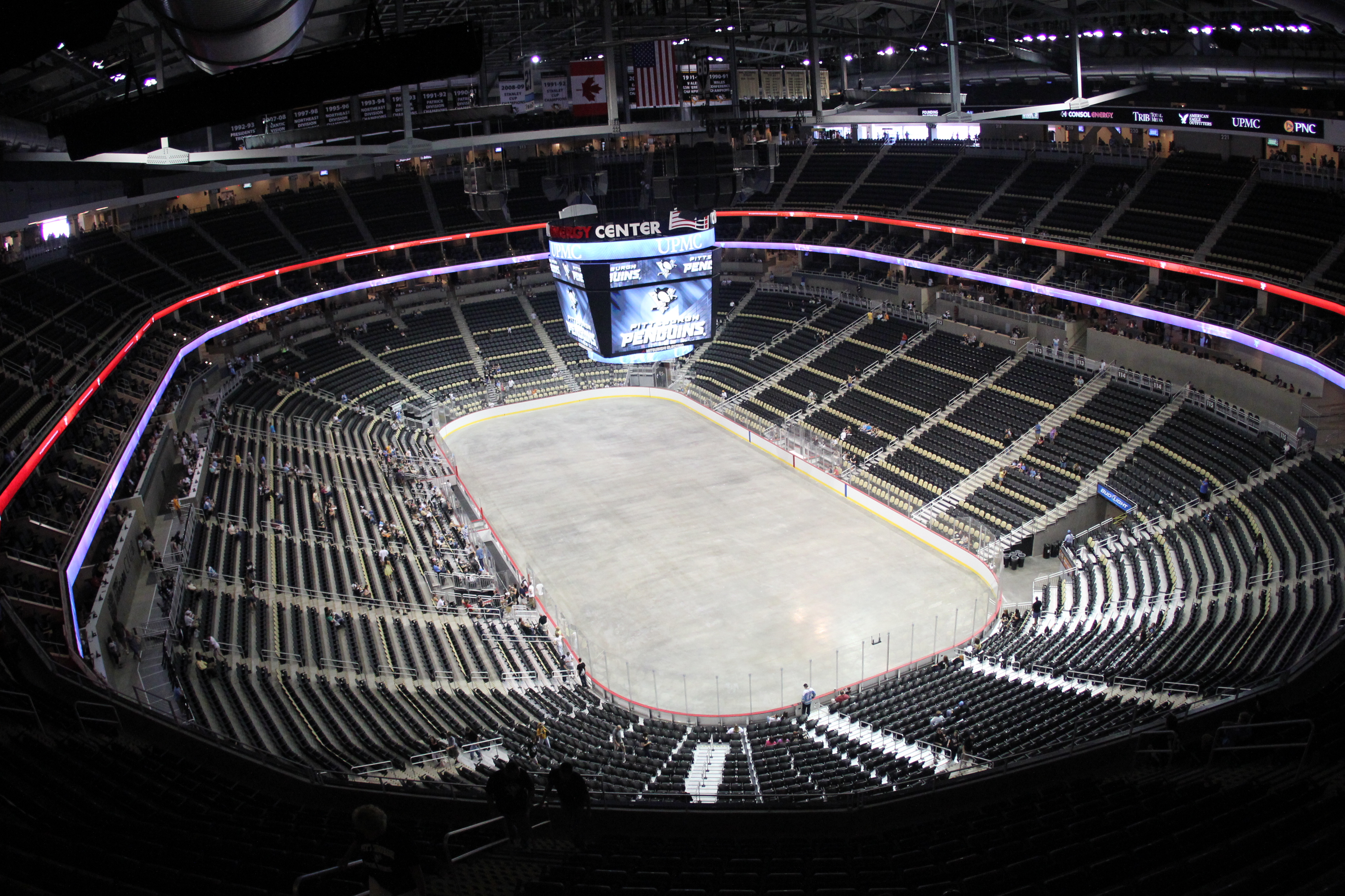 The House That Mario Built Rink